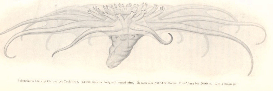 Subject: Holothurians, Pelagothuria Tag: Fish